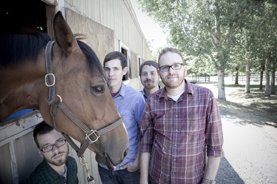 Setting The Paces Promo Photo